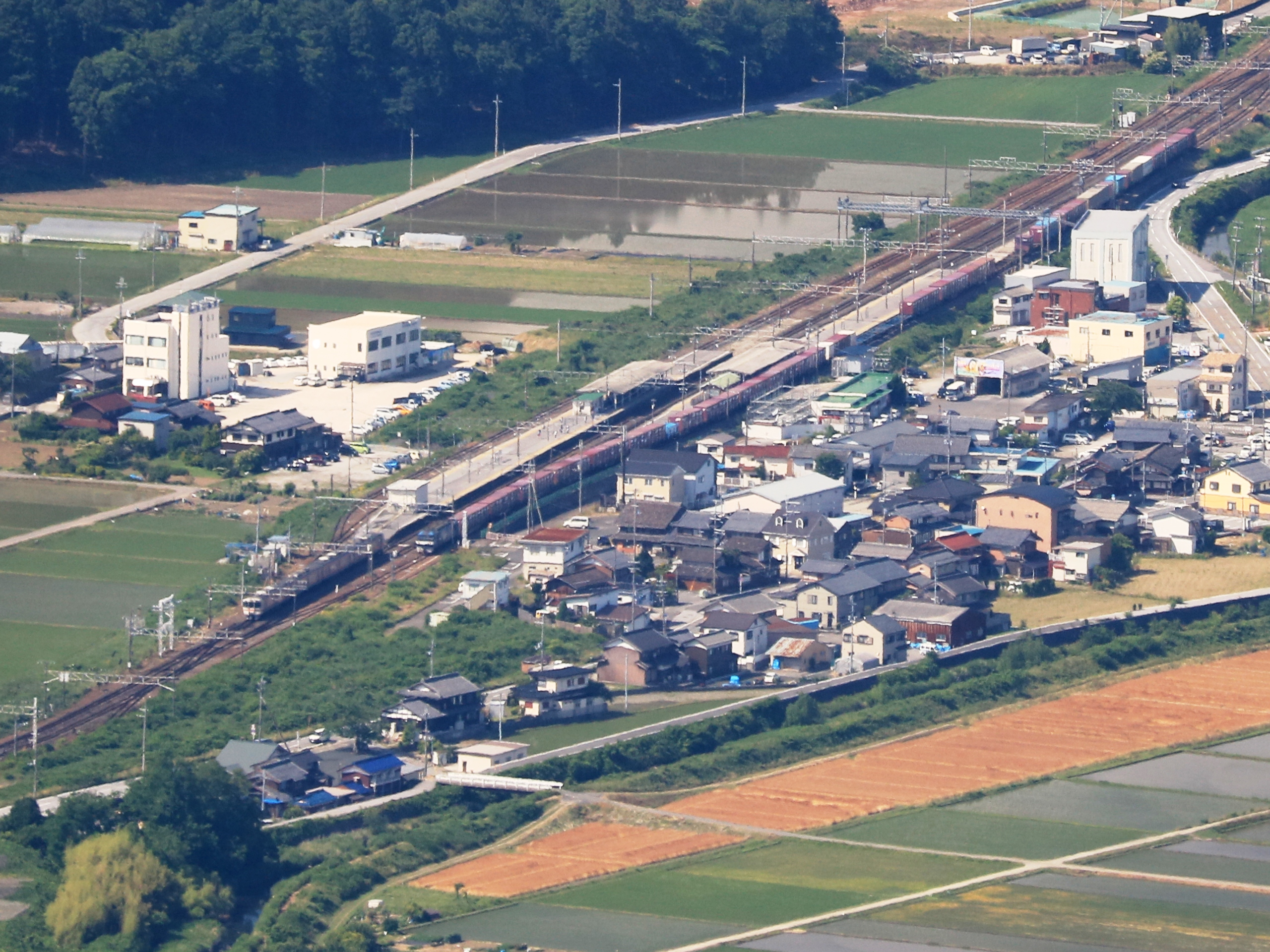 Ōmi-Nagaoka Station seen from Mount Ibuki in Maibara, Shiga Prefecture, Japan, with a JR Central 313 series EMU and JR Freight Class EF210 electric locomotive visible